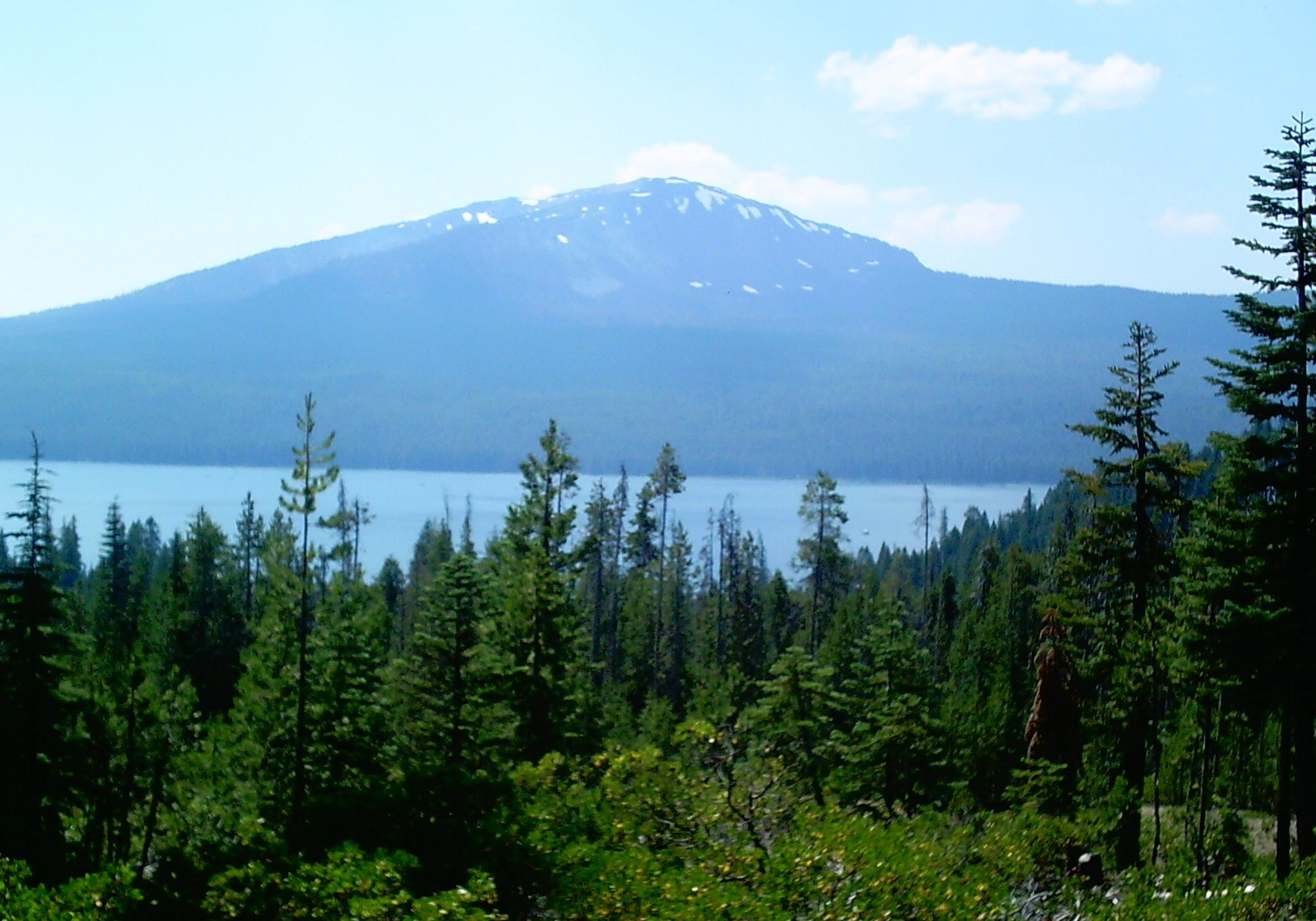 Mount Bailey (Oregon, USA) from view point